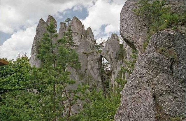 Súlovské skály, District Bytča, Slovakia